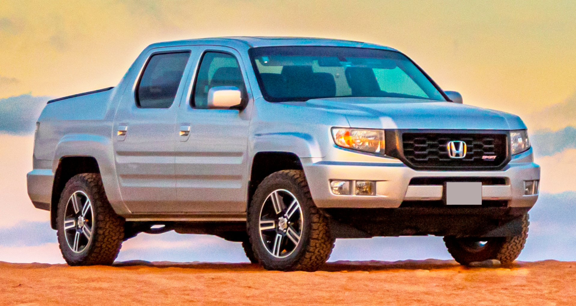 2012 Honda Ridgeline Mexican RTL with off-road tires